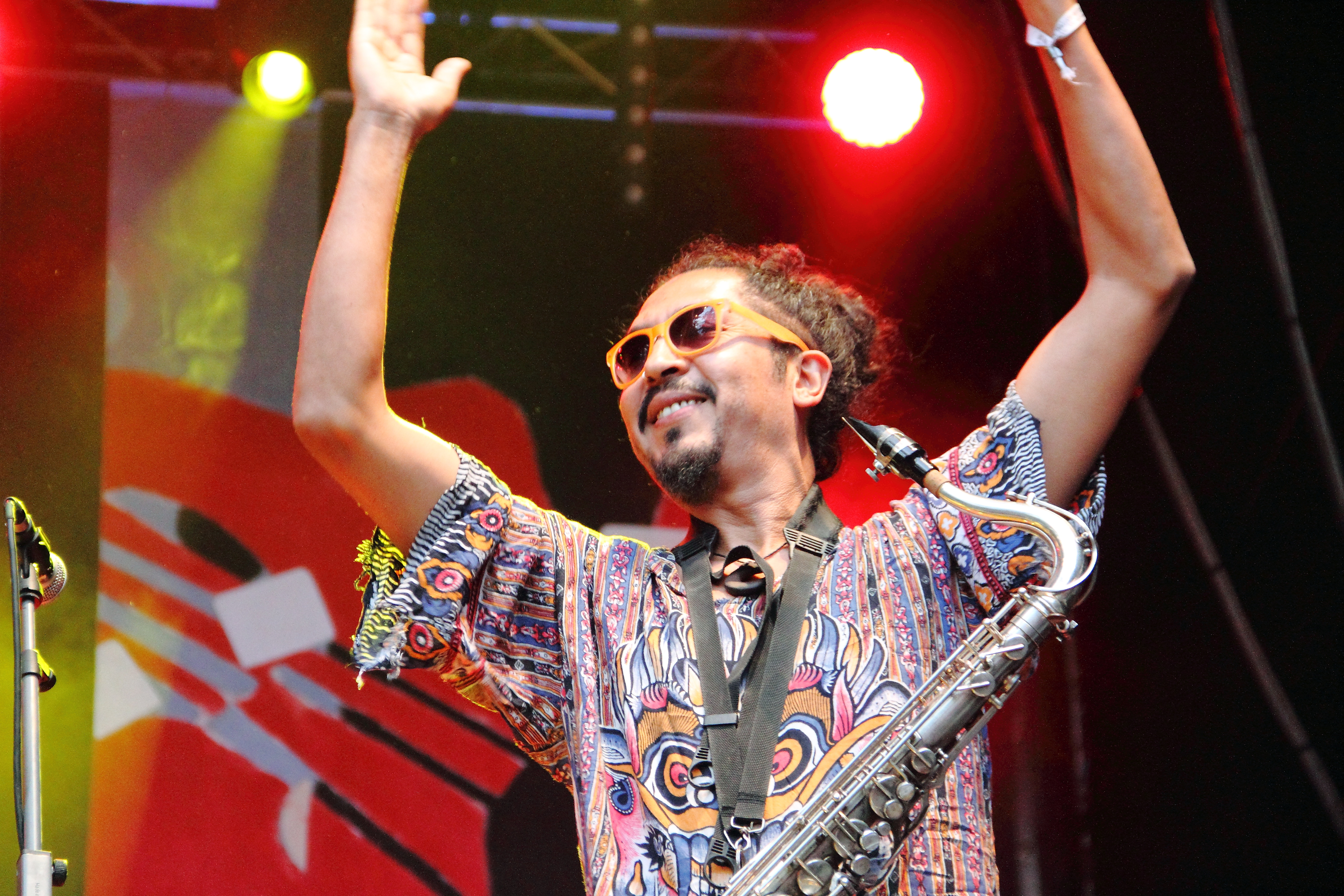 Chico Trujillo at Rudolstadt-Festival 2018.